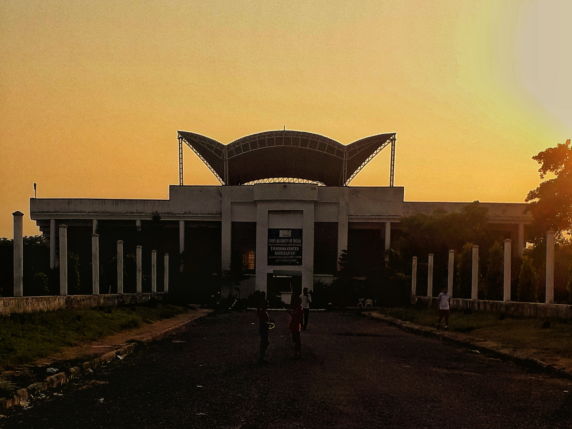 Bareilly cantt stadium